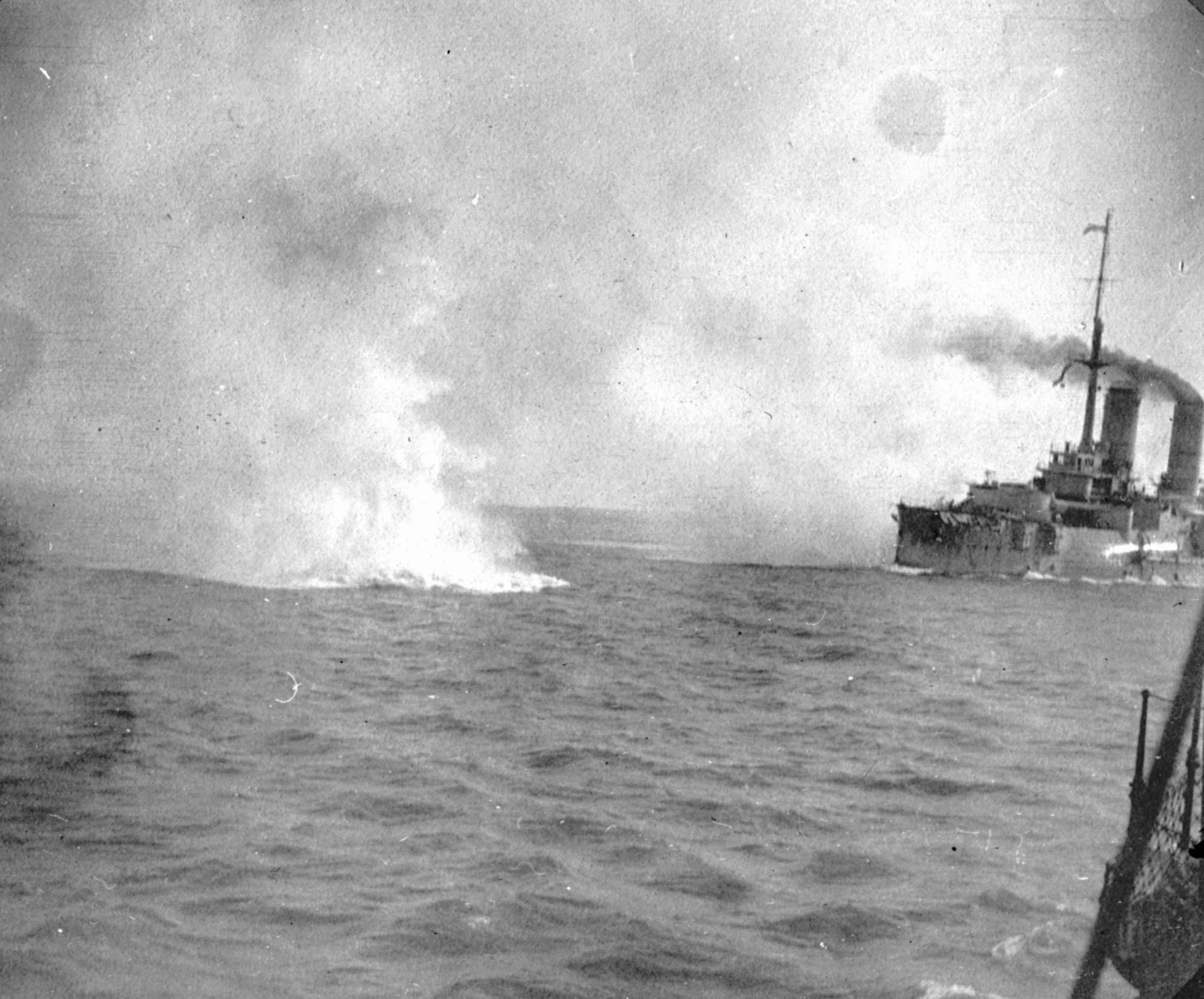 The last battle of Russian battleship «Slava».